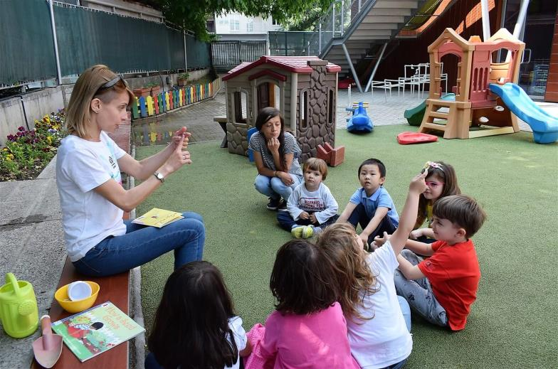 NOVA International Schools Early Education Center